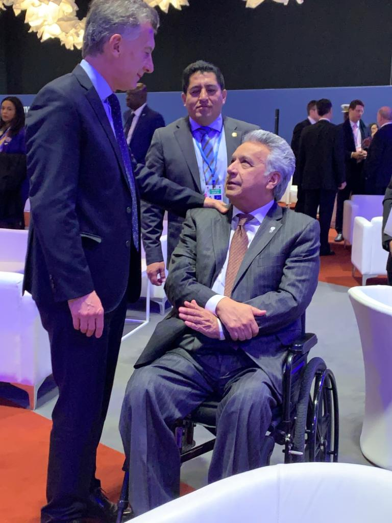 Mauricio Macri alongside Lenín Moreno at the 2019 United Nations Climate Change Conference.